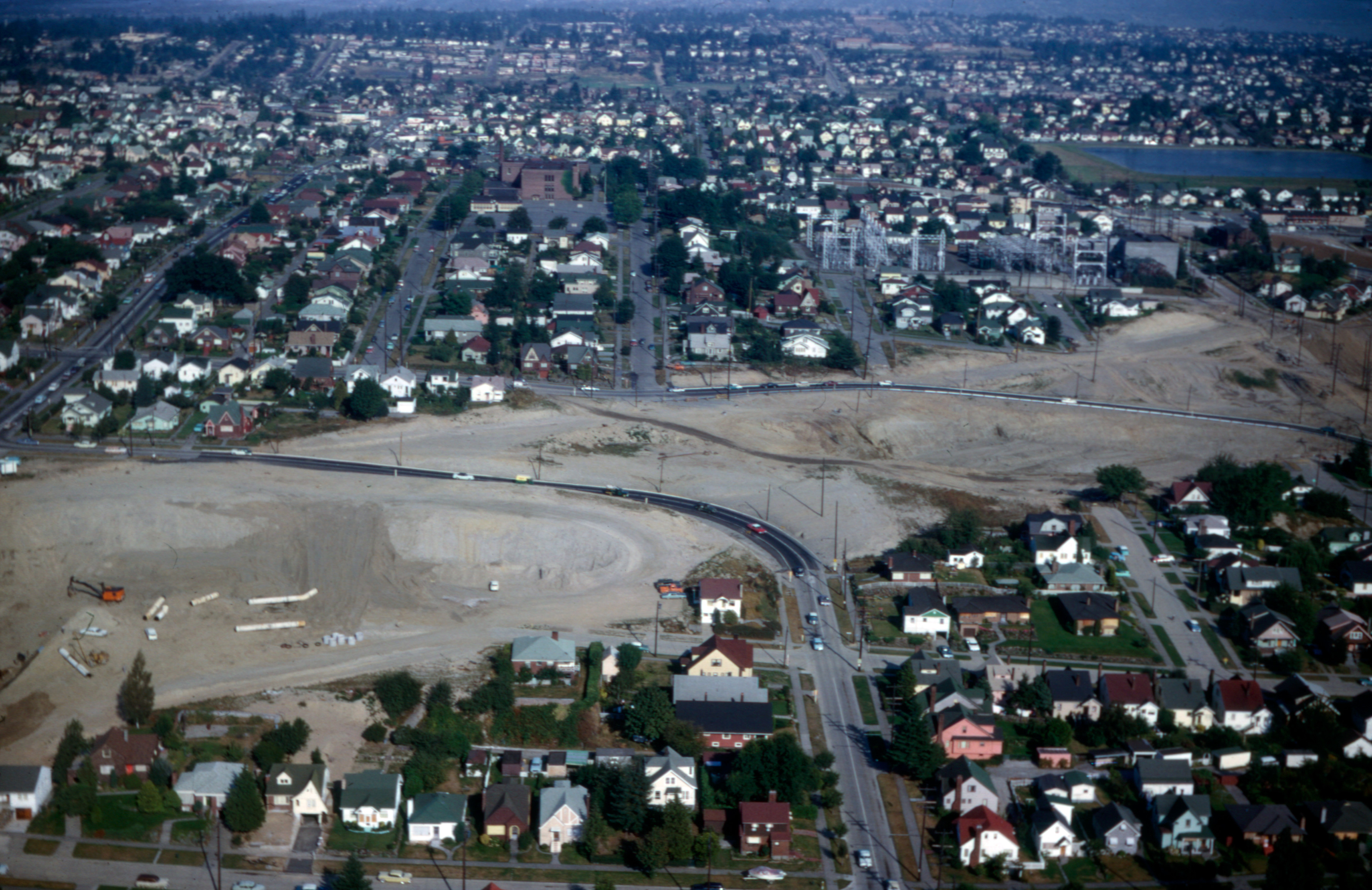 Interstate 5 under construction in Seattle, Washington, U.S. Looking east. At the very top is Lake Washington. The small body of water at upper right is the Roosevelt Reservoir; on its left is NE 75th Street, just below it is 11th Avenue NE. At center left is an intersection of NE 80th Street and a temporary road across the I-5 route that appears to connect to NE 77th Street near Latona Ave NE.